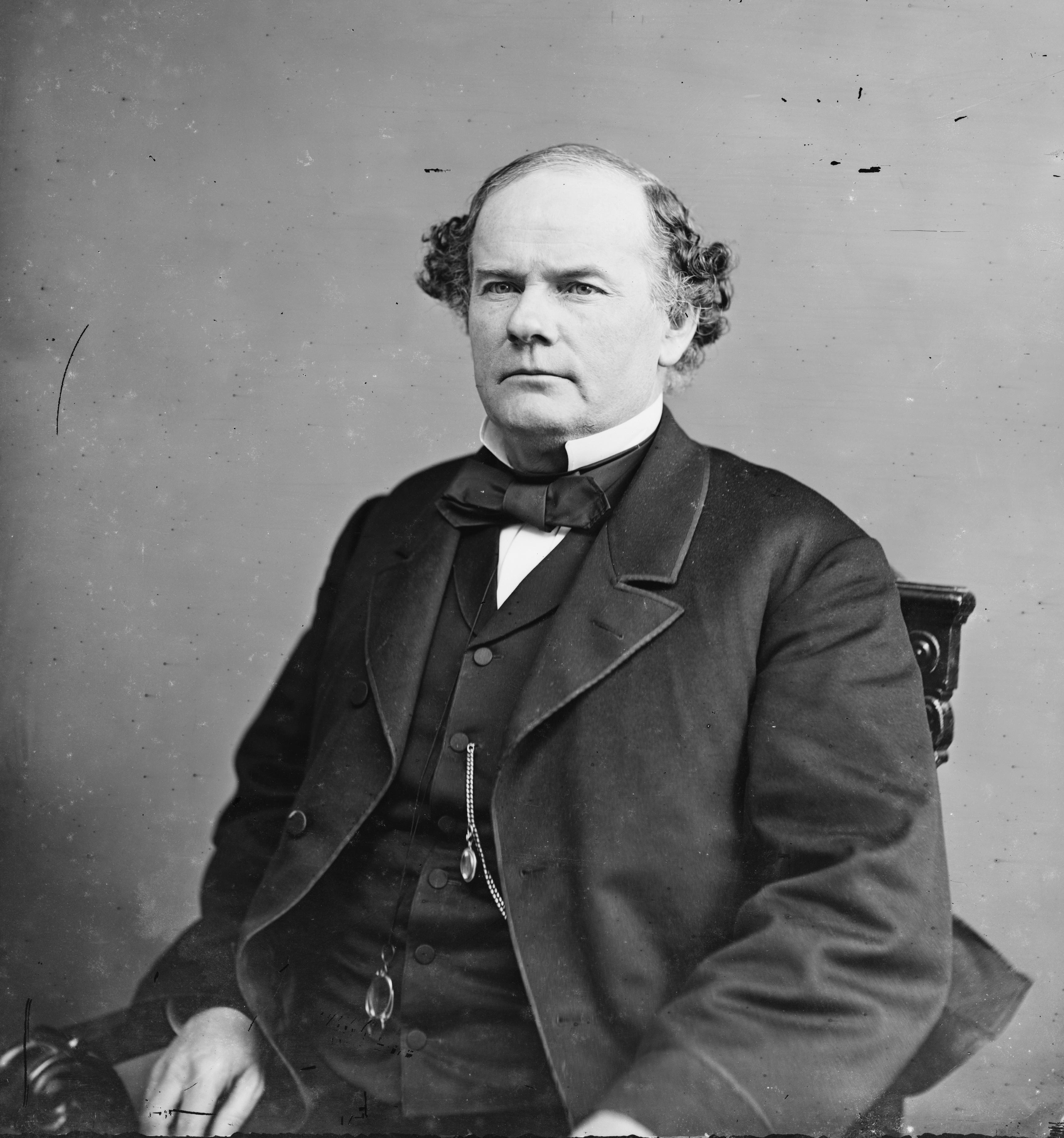 Alexander G. Cattell. Library of Congress description: "Cattell, Senator Alexander G. of N.J."